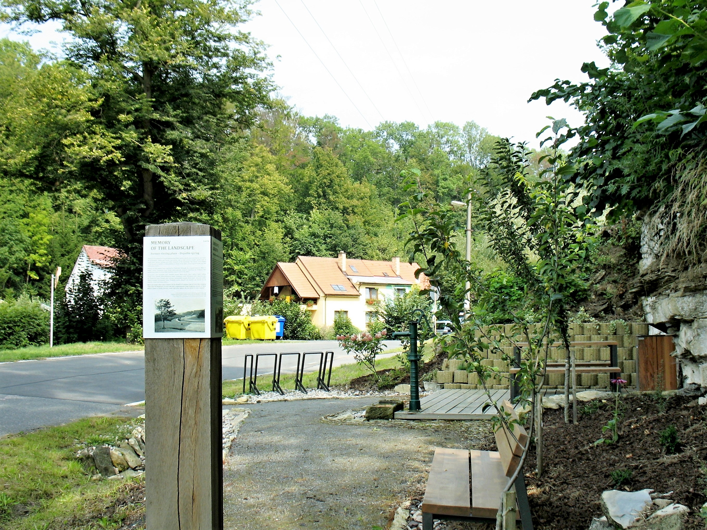 Educational trail Trstěnická stezka, Trstěnice village, Svitavy District, Czech Republic